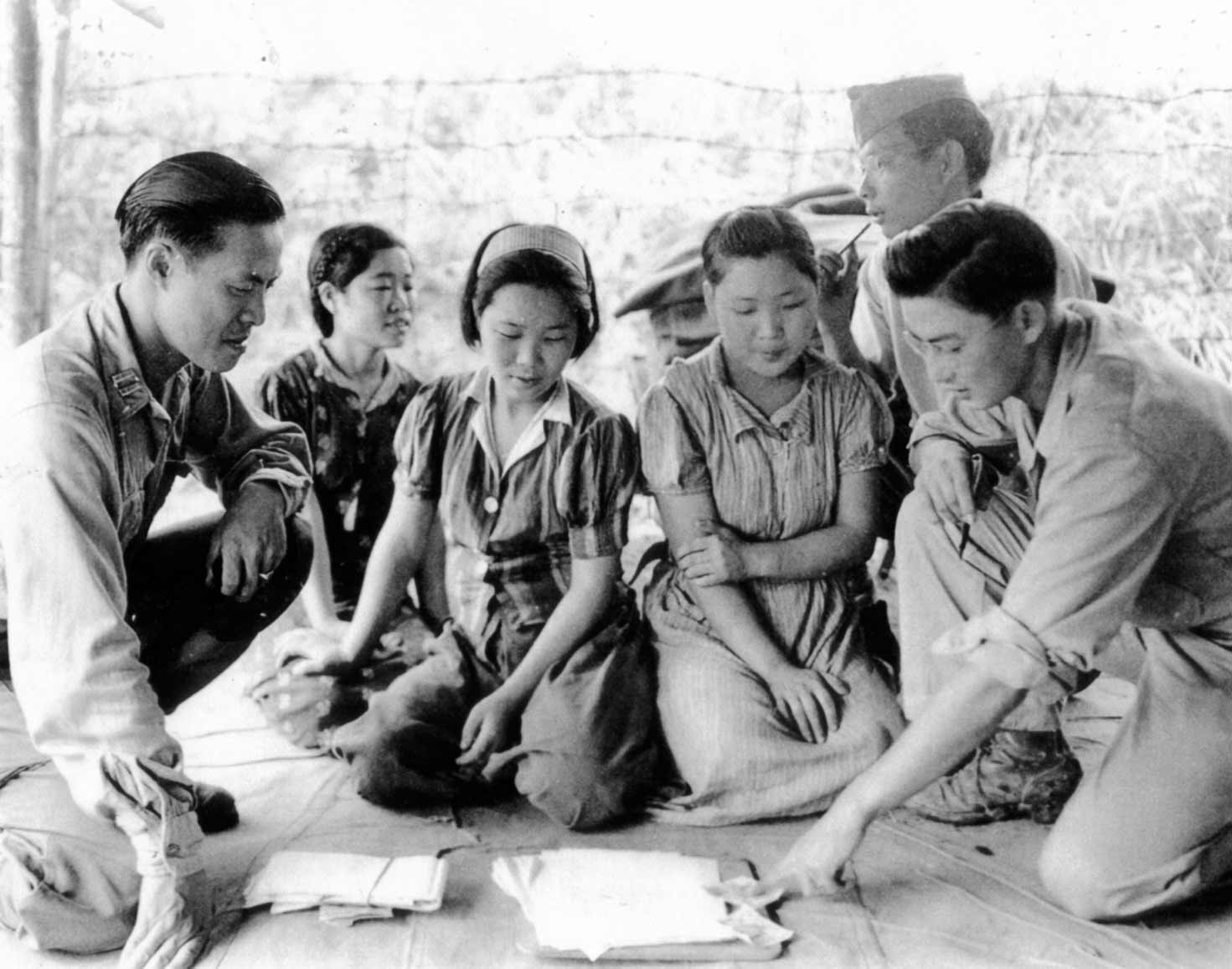 Comfort women (comfort girls) captured by U.S. Army, August 14 1944, Myitkyina. U.S. Army reported these women in their secret report which already uploaded on commons File:Japanese_Prisoner_of_War_Interrogation_Report_No._49_p1.png "Three Korean “comfort girls” (captured in Burma), photographed while being interrogated by Capt. Won Loy Chan (San Francisco, California), Tech. Sgt. Robert Honda (Hawaii) and Sgt. Hirabayashi (Seattle, Washington), all of the G-2 Myitkyina Task Force of the U.S. Army; photo dated August 14, 1944. (Source: U.S. National Archives, SC- 262580.)" Soh, C. Sarah (2008) The Comfort Women: Sexual Violence and Postcolonial Memory in Korea and Japan, University of Chicago Press ISBN: 0226767779.